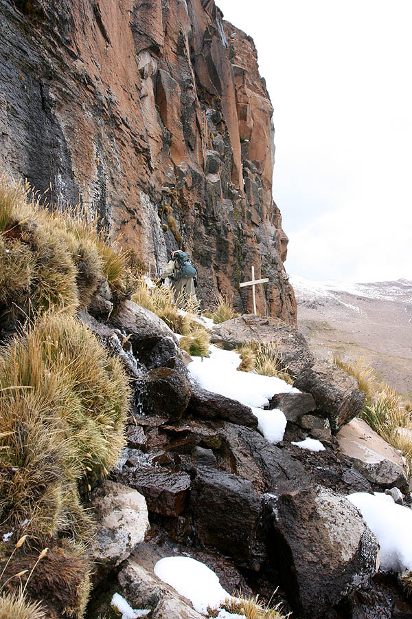 The origin of the Amazon at Nevado Mismi marked only by a wooden cross.